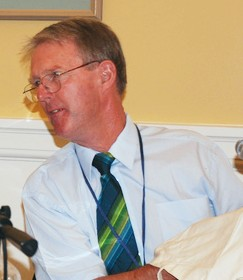 New Zealand politician Jim Sutton, cropped and adjusted from photo by PCE